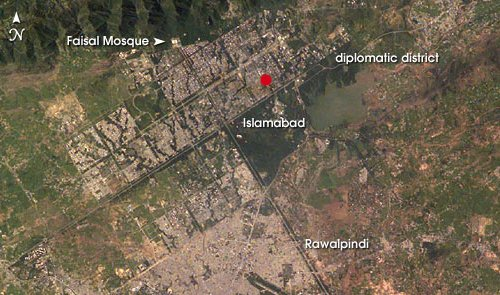 Location of Lal Masjid (Red Mosque) in Islamabad, Pakistan. The red circle marks the spot.